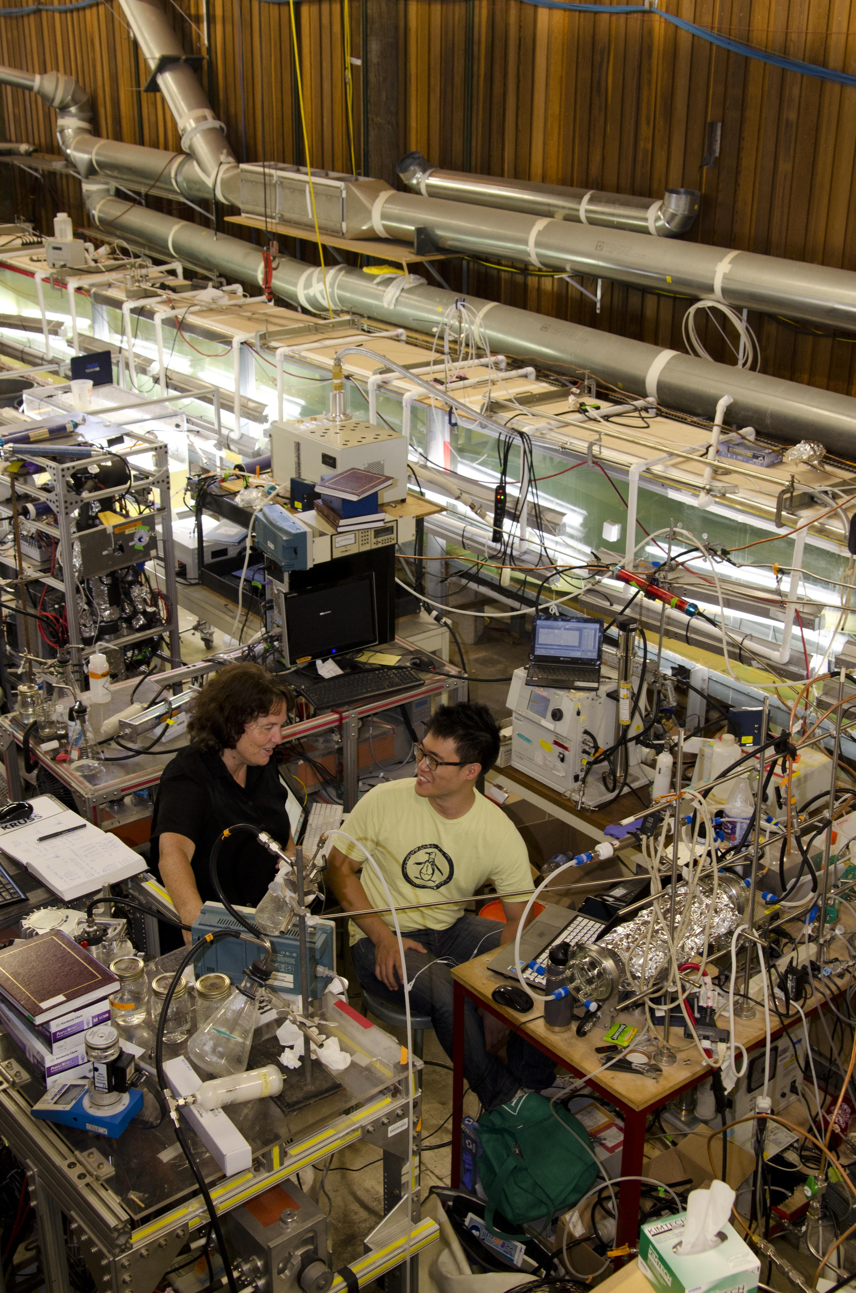 Students participate in the CAICE (Center for Aerosol Impacts on Climate and the Environment) IMPACTS (Investigation into Marine Particle Chemistry and Transfer Science) 2014 intensive program at the Hydraulics Lab. At left, CAICE Director Kim Prather.